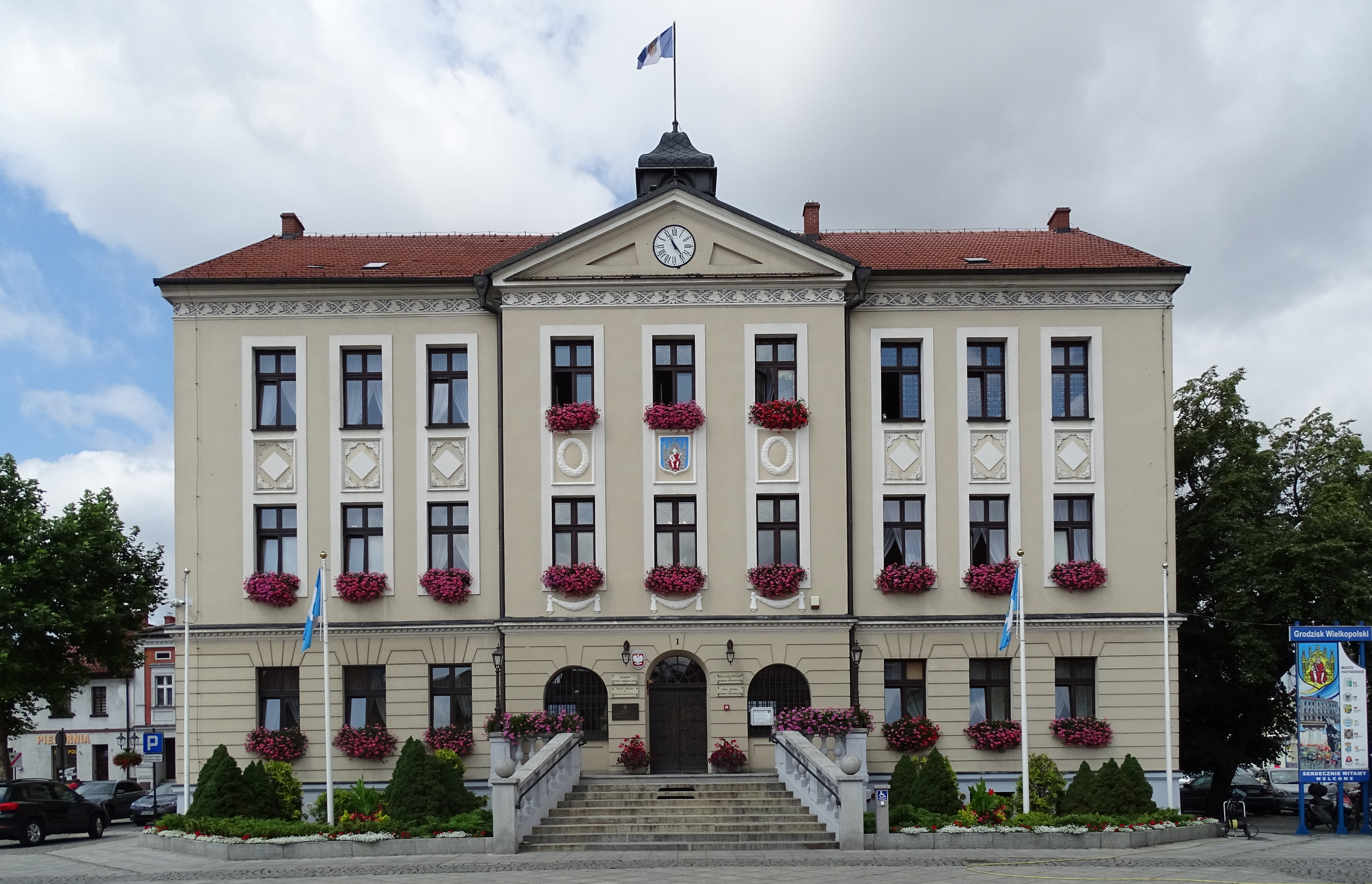 Grodzisk Wielkopolski, Greater Poland, the Town Hall from about 1835.